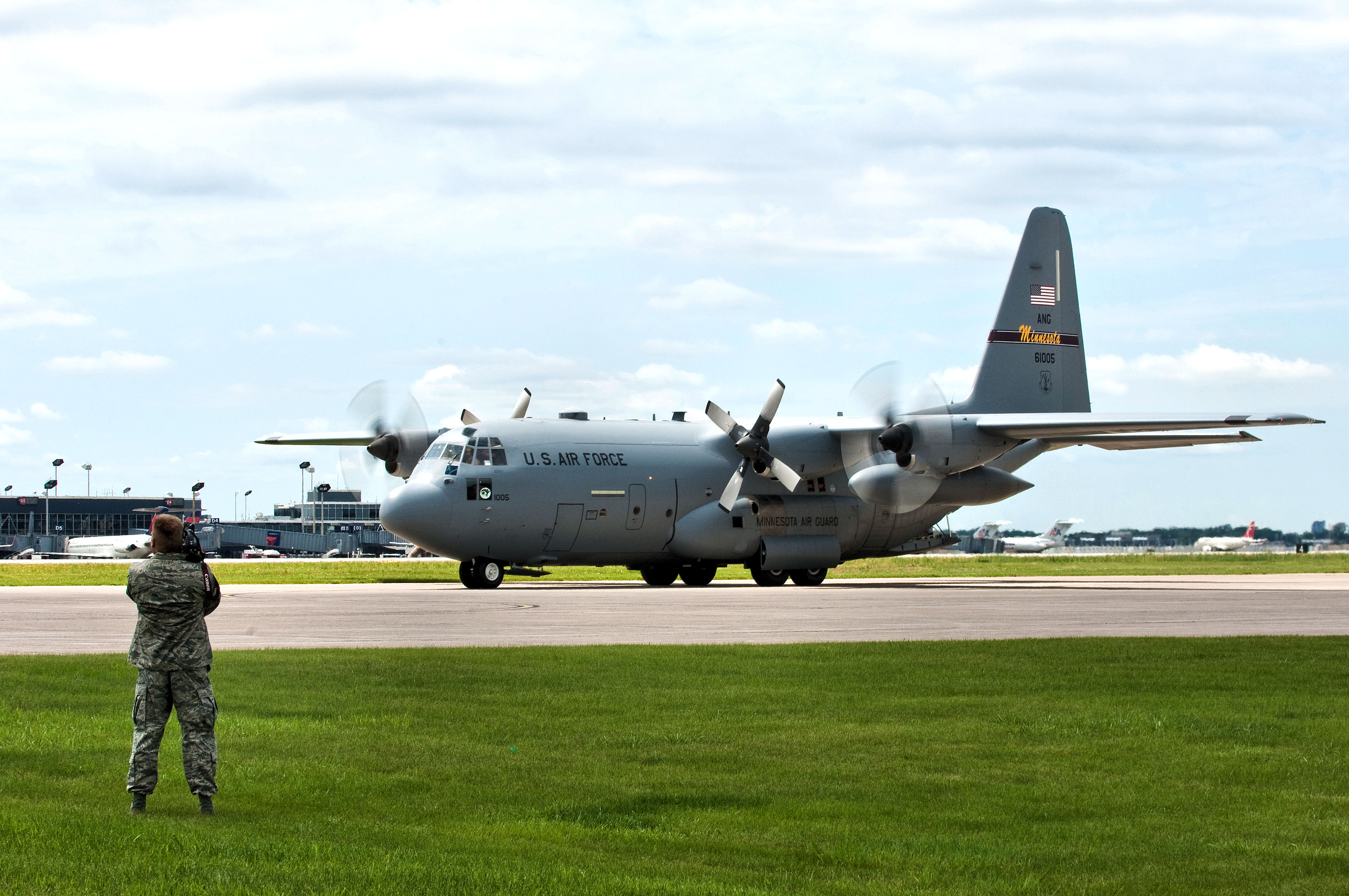 A U.S. Air Force Lockheed C-130H Hercules (s/n 96-1005) from the 109th Airlift Squadron, 133rd Airlift Wing, Minnesota Air National Guard, taxis into position for recovery at the Minneapolis-St. Paul International airport on July 11, 2010 after returning from a tour in Afghanistan. The military cargo aircraft and about twenty Airmen are the first in a series of returns during July for the 133rd Airlift Wing in 2010. USAF official photo by Senior Master Sgt. Mark Moss